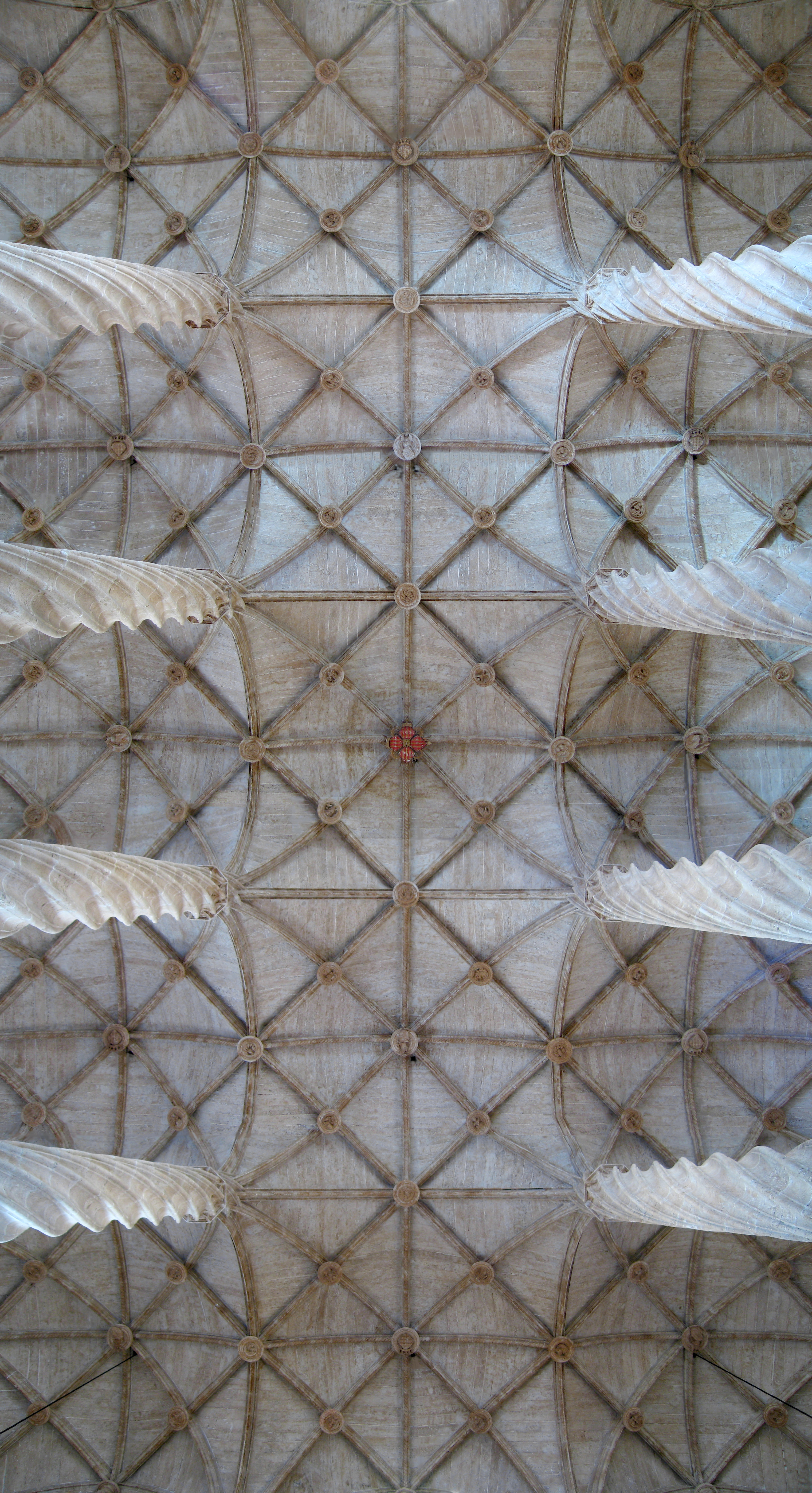 Sostre de la Llotja de València